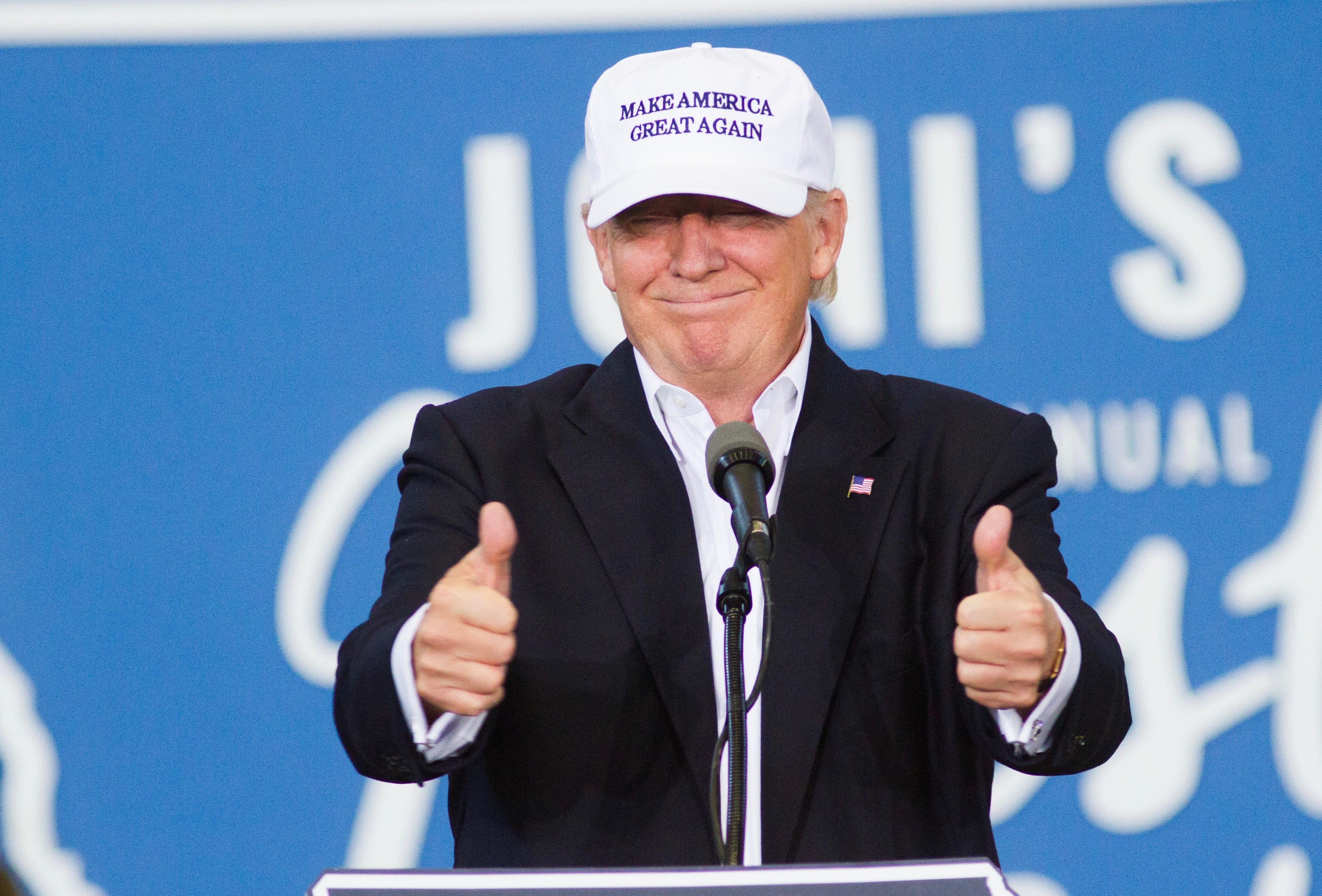 Donald Trump at 2016 Roast and Ride, hosted by Sen. Joni Ernst.